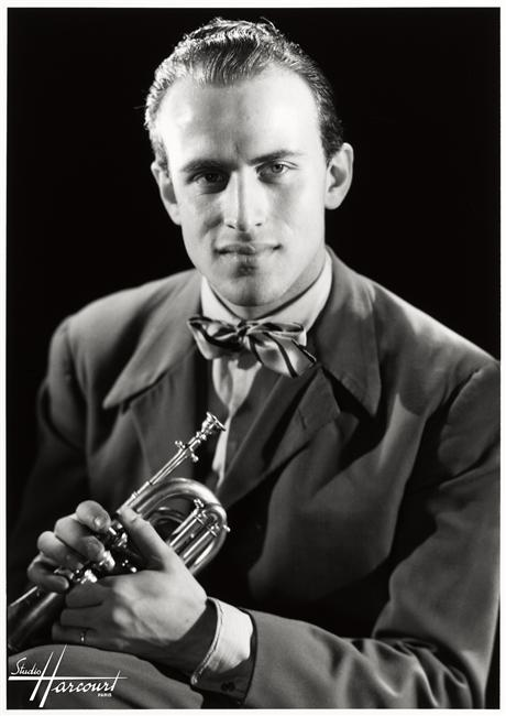 Studio photo